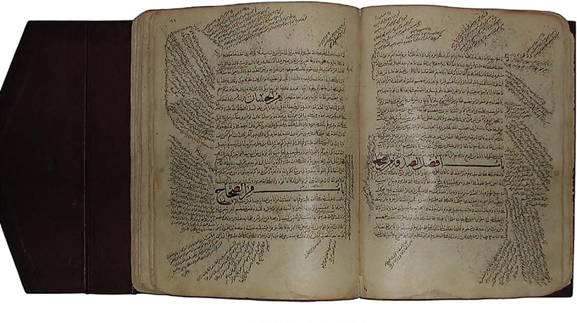 ManuScript in Arabic on paper, Mecca, Saudi Arabia, 1329, 251 ff. (complete), 32x23 cm, single column, (main text: 21x16 cm, including gloss: 30x23 cm ), 21 lines in Arabic Naskhi book script by Elias b. Ahmad b. Elias al-Nawjari, chapter headings in large muhaqqaq book script, extensive glosses often diagonal or inverted in the margins. Binding: Mecca, Saudi Arabia, 16th c. brown morocco with flap, blindtooled central medallions in ottoman style, sewn on 2 cords. Provenance: 1. Hajji Ismael Bey, Saudi Arabia (16th c.); 2. Sam Fogg Rare Books Ltd., London.